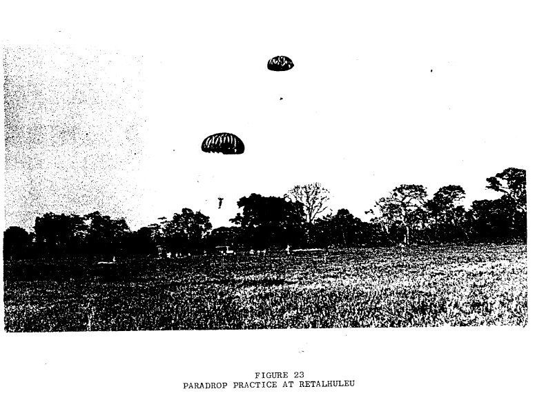 Cuban commandos working with the CIA practicing parachute drops for the Bay of Pigs Invasion